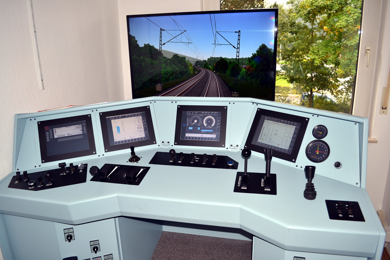 Cab Simulator of DBAG class 185 electric locomotive.